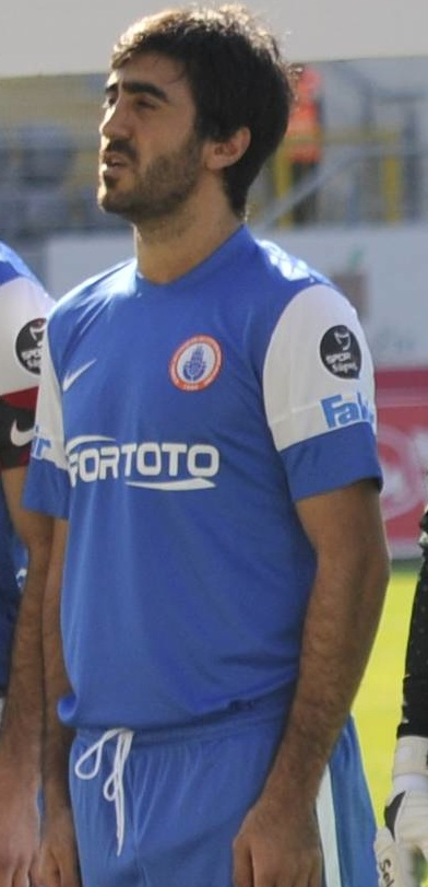 Foto: Koray Geçgel